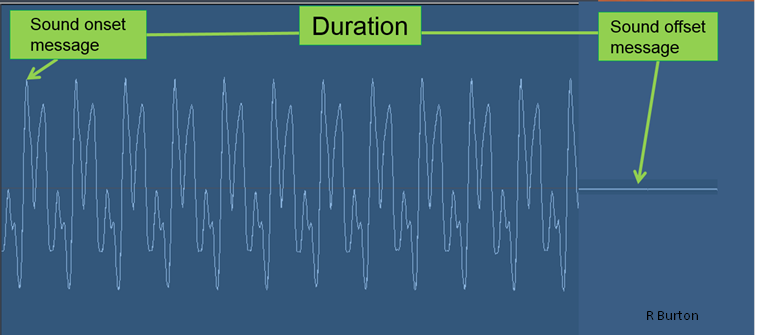 This image shows where sound onset and offset messages occur